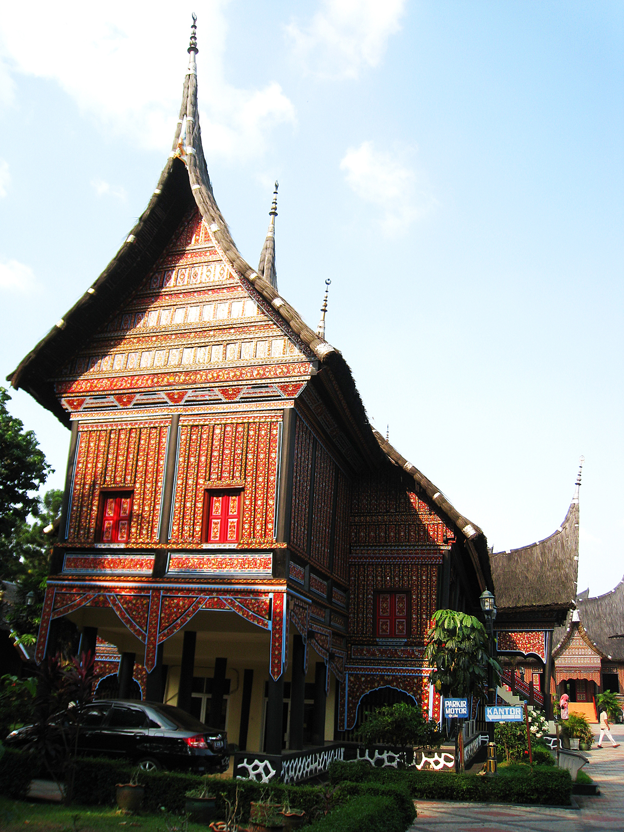 The richly decorated Minangkabau Rumah Gadang, West Sumatra pavilion in Taman Mini Indonesia Indah, Jakarta.